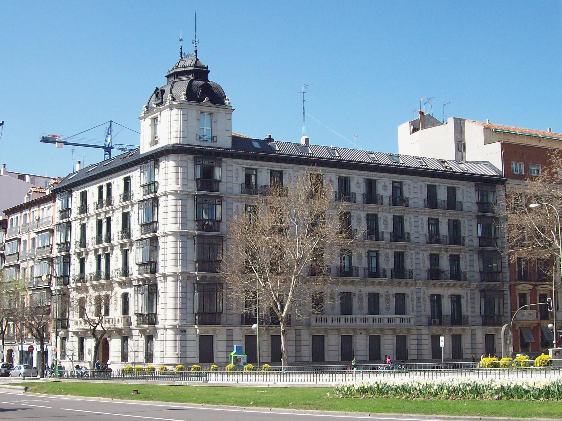 View, from the south-east angle, of Fundación Universitaria Española's headquarters, at 93 Calle de Alcalá (street, Salamanca district) in Madrid (Spain). Building was projected in 1901 by Santiago Castellanos Urízar, and built from 1901 to 1903 as a mansion for Federico Ortiz.